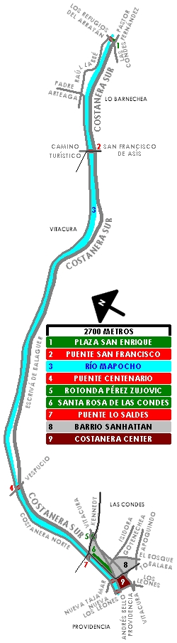 Map of Costanera Sur, future avenue of Santiago, Chile.